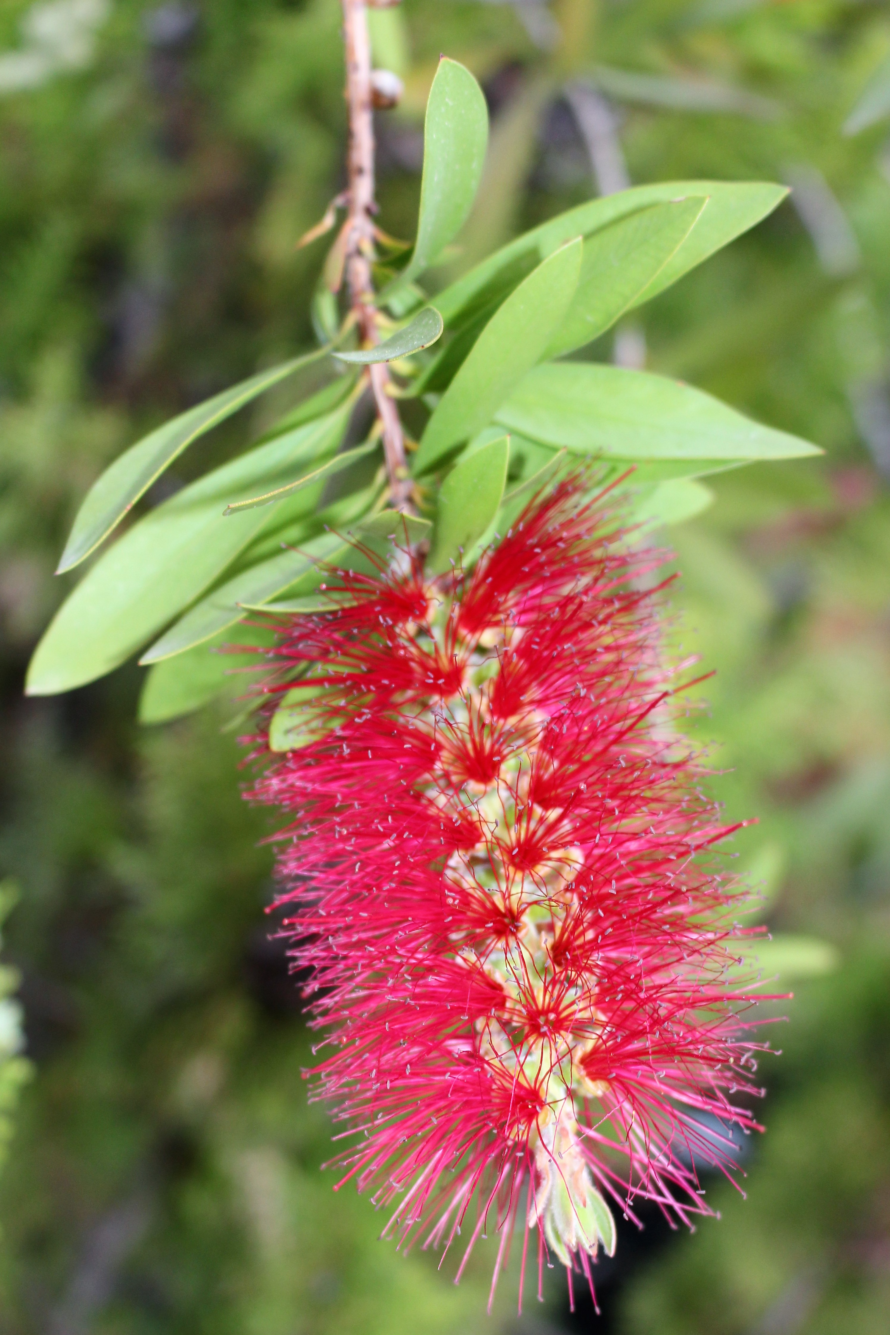 Melaleuca viminalis - synonym: Callistemon viminalis inflorescens near Athens, Greece.